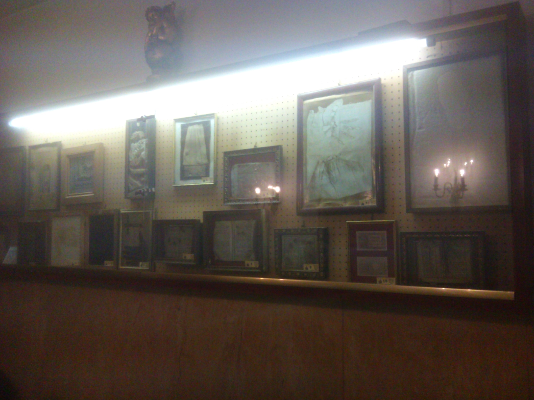 Museum of holy souls in purgatory (Rome)